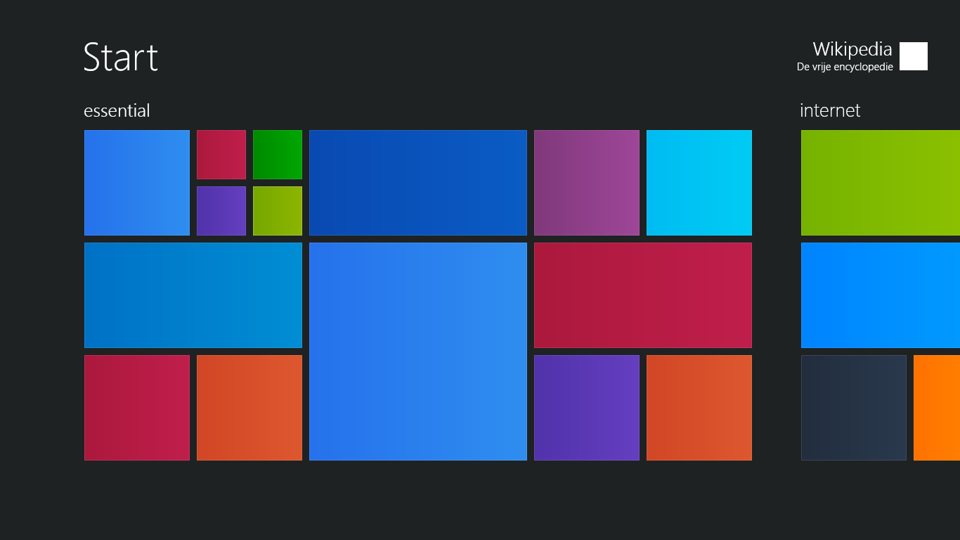 The Start screen as seen in Windows 8.1, without text, backgrounds, and other non-geometric material.